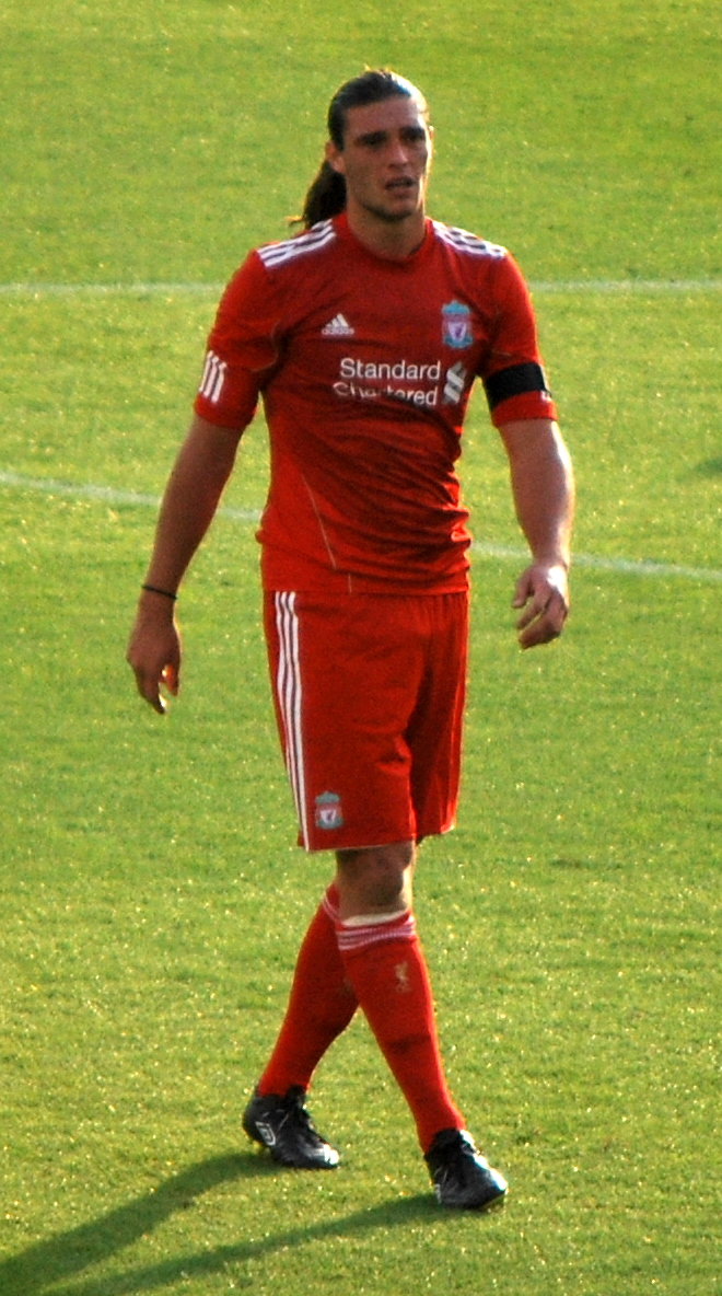 Andy Carroll during pre-season friendly Vålerenga v. Liverpool on 1st August 2011 at Ullevål. Result: 3-3.